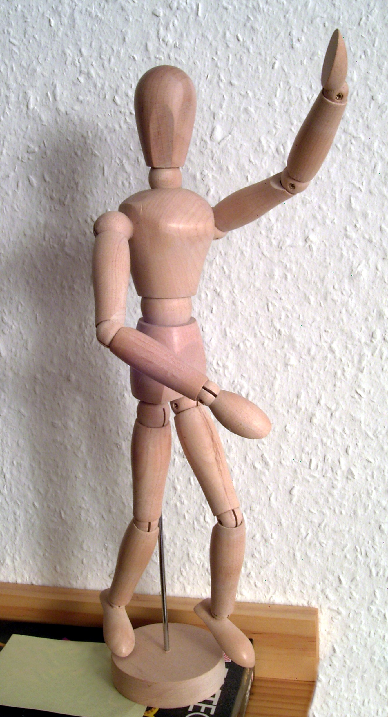 Puppet made of wood